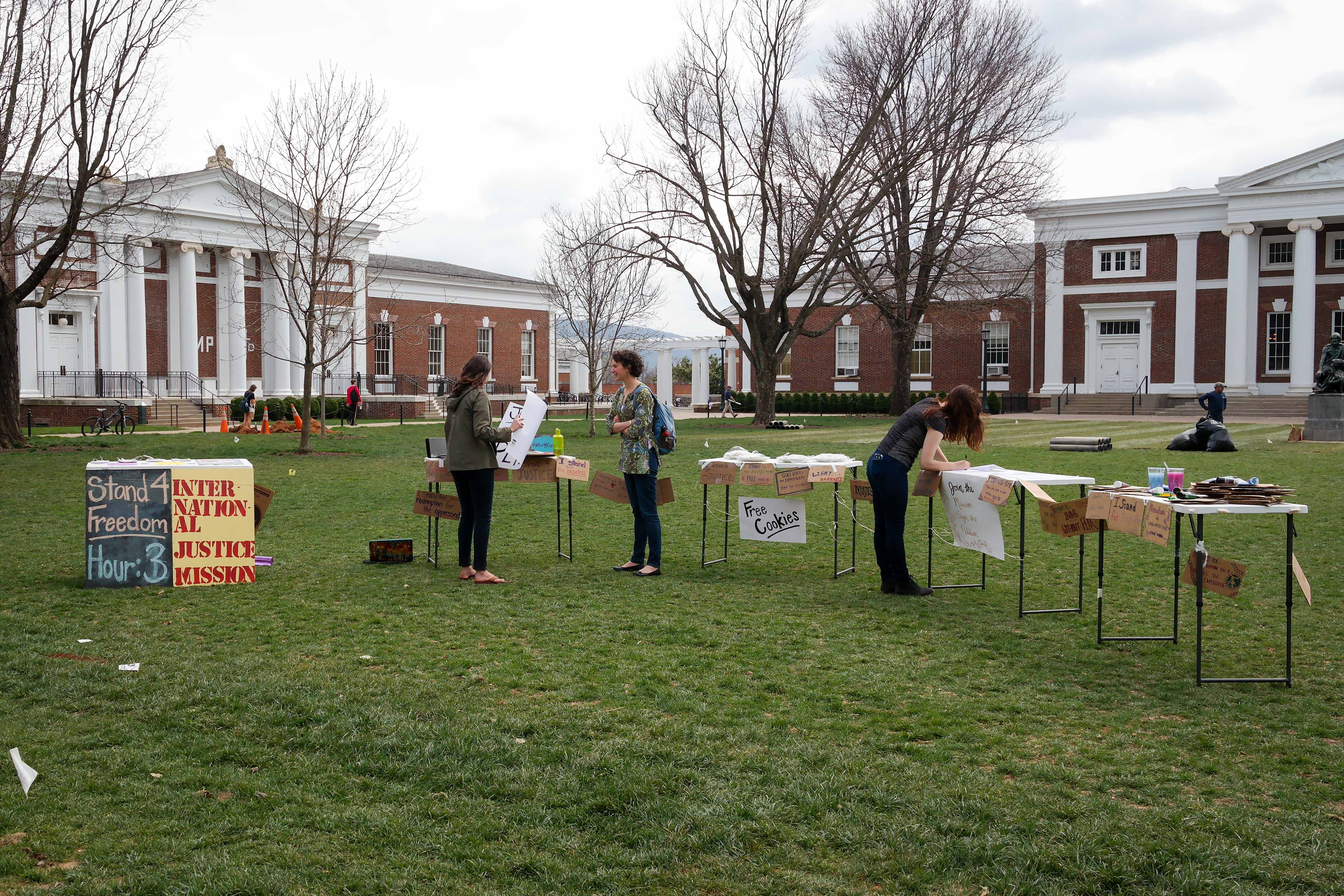 The International Justice Mission at the University of Virginia in Charlottesville